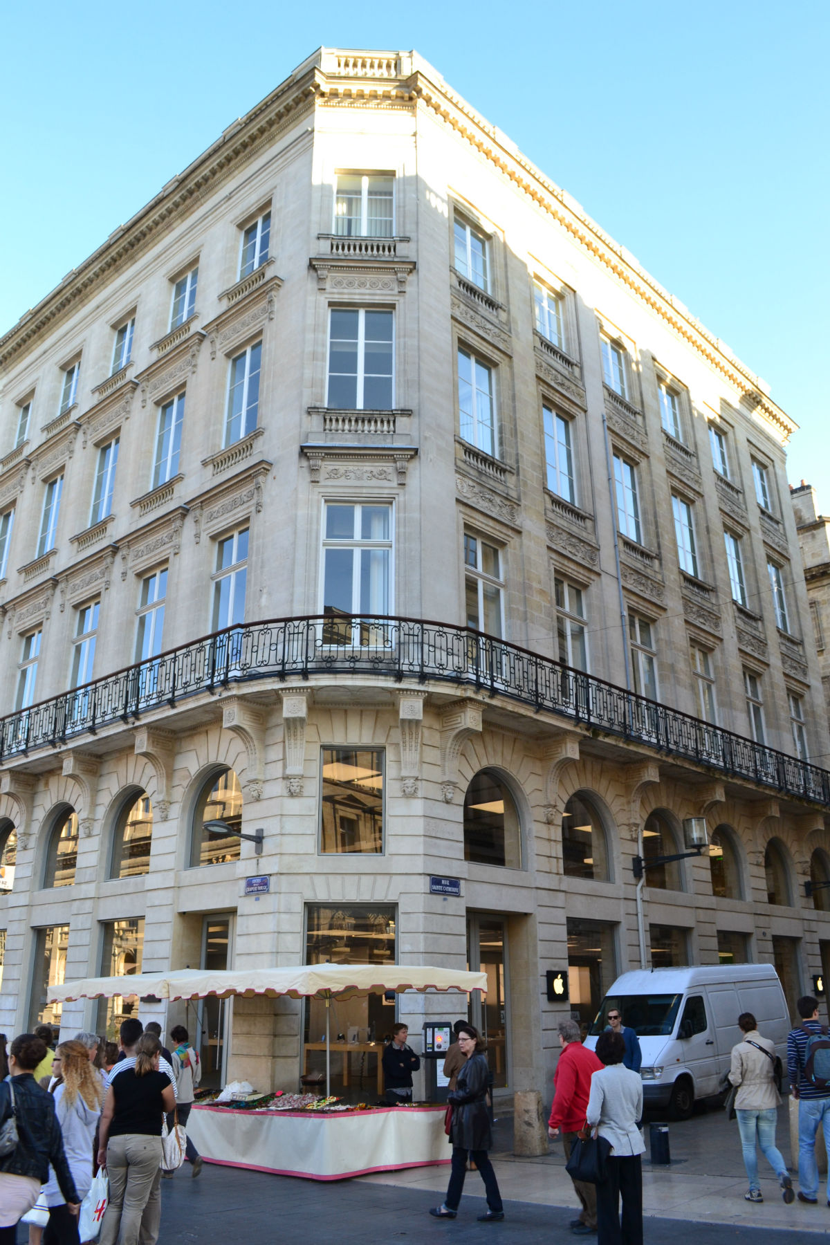 Hôtel Bonnaffé, 54 cours du Chapeau rouge, - Bordeaux